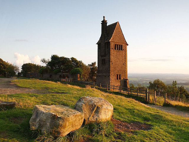 Pigeon Tower in Rivington, Lancashire, England. This is the Pigeon Tower in Rivington. It was built by Lord Leverhulme as part of his large estate. In 1886 he established a soap manufacturing company called Lever Brothers (now part of Unilever). He lived in the Rivington area of Bolton for many years. In 1913, his house there was destroyed by a suffragette � ironically, as he was in favour women's suffrage. He had a large mansion created to replace this original home, and turned a large portion of the grounds over to the town of Bolton as a public park, including a small zoo stocked with emu, yaks, zebra, wallabies and a lion cub. His own Japanese-style garden, based on the design of the willow-patterned plate, included a lake complete with its own flock of flamingos. The Pigeon Tower sits at the north-western edge of the Oriental Gardens, and originally had three stories, with the top room being Lady Lever's sewing room and the lower two levels housing ornamental doves and pigeons. Whilst structurally sound following renovation work in Spring 2006, the property has not been inhabited for many years.